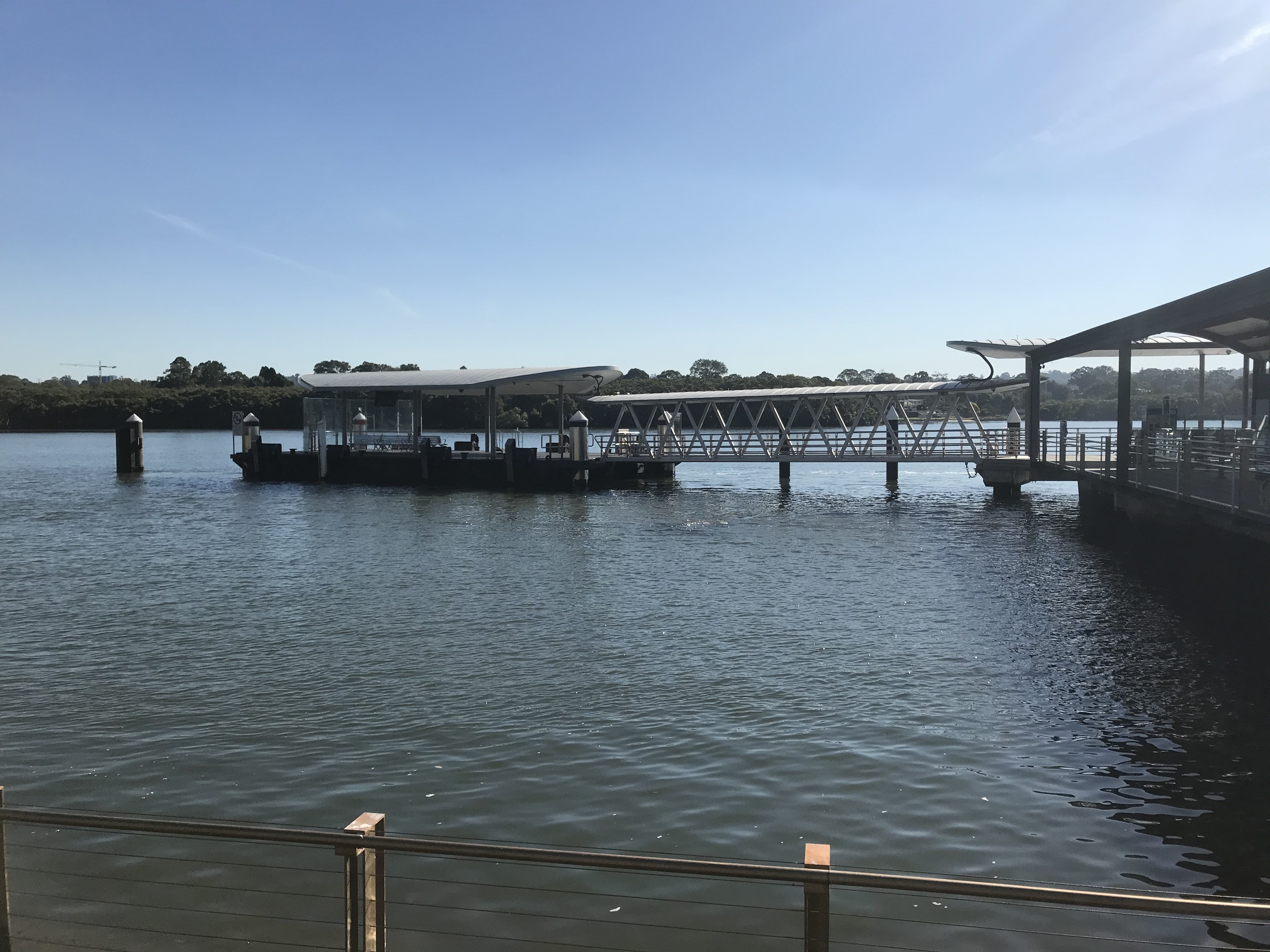 Sydney Olympic Park Wharf, Sydney, NSW, Australia. The wharf services the ferry/rivercat public transport system operating between Circular Quay and Parramatta along the Parramatta River. The wharf is located on the southern side of the Parramatta river in the suburb of Wentworth Point.